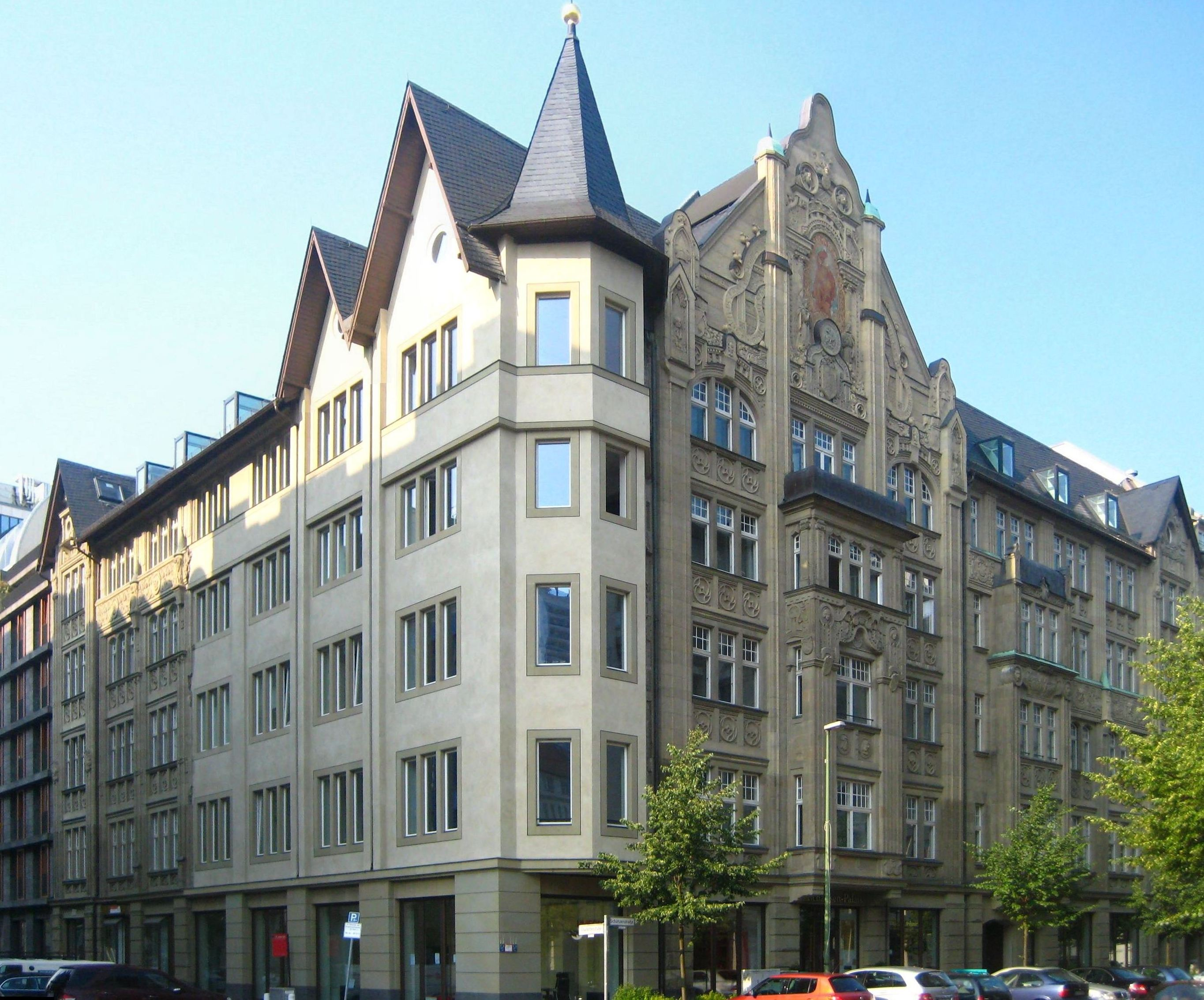 Commercial building and former hotel Roter Adler" ("Red Eagle") at Schützenstraße 6-6A, corner of Charlottenstraße (on the left) in Berlin-Mitte. It was built 1903 to 1907 by the architect Otto Michaelsen and originally had a hotel part on Schützenstraße and an office part on Charlottenstraße. The office tract was originally used by the Chief Prosecution Office of Berlin and by offices of the Superior Court of Justice. The hotel was converted into a commercial tract in 1915. The patriotic ornaments of the facade stand in the tradition of medieval Romanesque and Gothic architecture, but also integrate contemporary elements of Art Nouveau. The large gable on Schützenstraße, for example, has illustrations of Charlemagne (as founder of the Holy Roman Empire) and of William I. (as founder of the German Empire); they are flanked by illustrations of Freiherr vom und zum Stein and of Otto von Bismarck. In 2001, the corner of the building, which was destroyed in WWII, was reconstructed in a simplified version. The building has been designated a historic landmark.